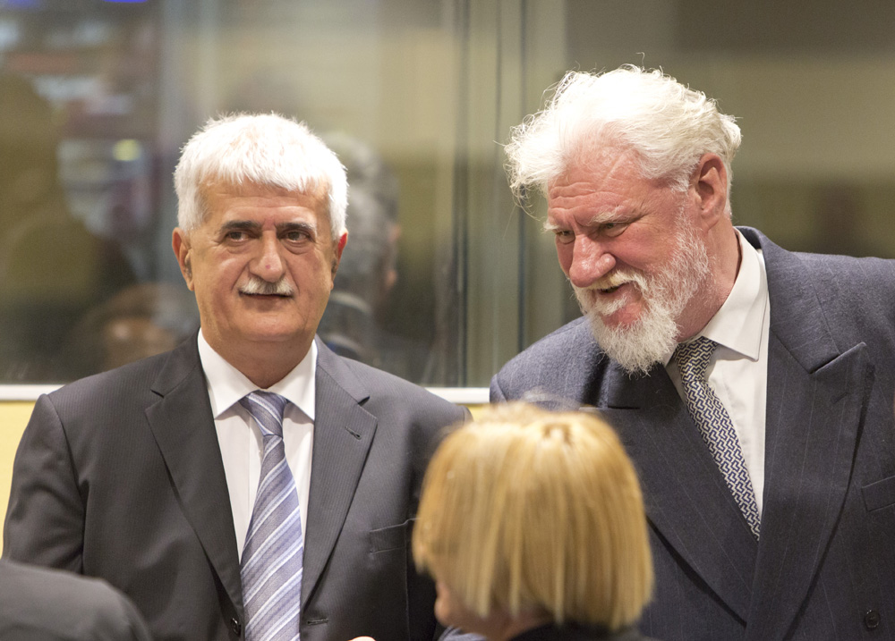 Bruno Stojić and Slobodan Praljak at the Prlić Trial Judgement in 2013.